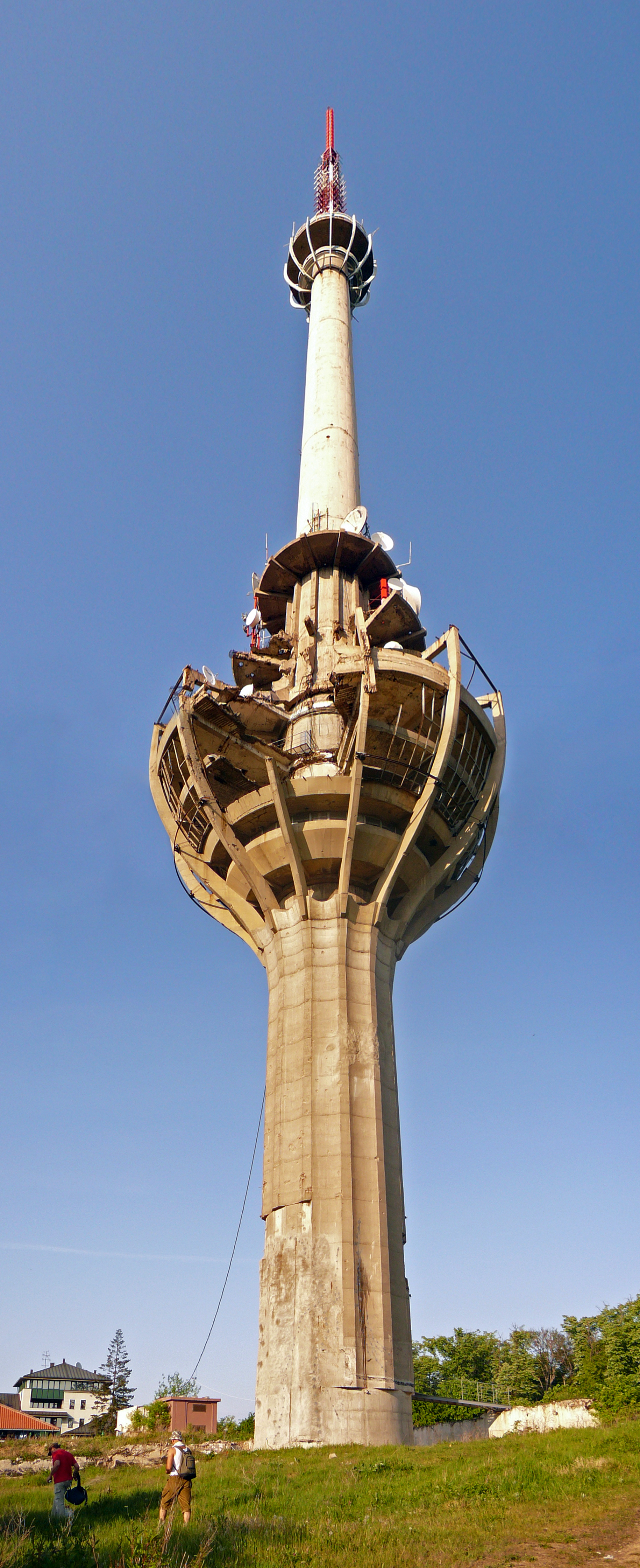 This is the TV tower on Iriški venac (the top of Fruška Gora). It's 175 m tall. The tower was partially destroyed by NATO during the bombing of FR Yugoslavia in 1999, and has not been repaired since.